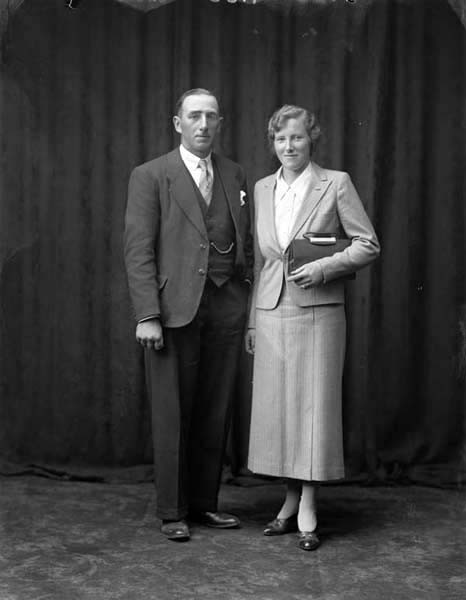 Mary Devenport and Joseph O'Neill on their wedding day in Dublin 19 June 1908.